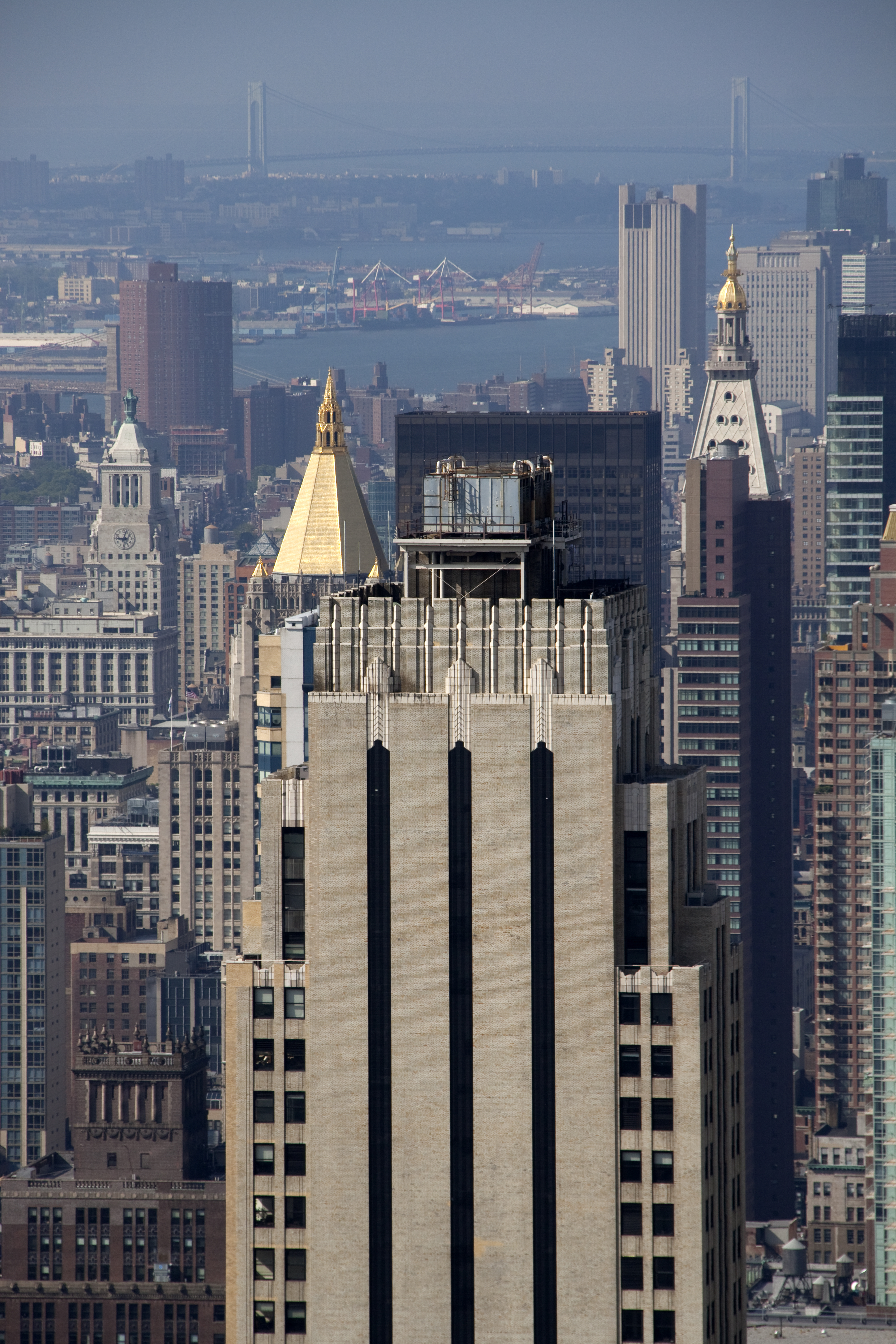 The back of the Transportation building (500 5th Ave) from the Top of the rock